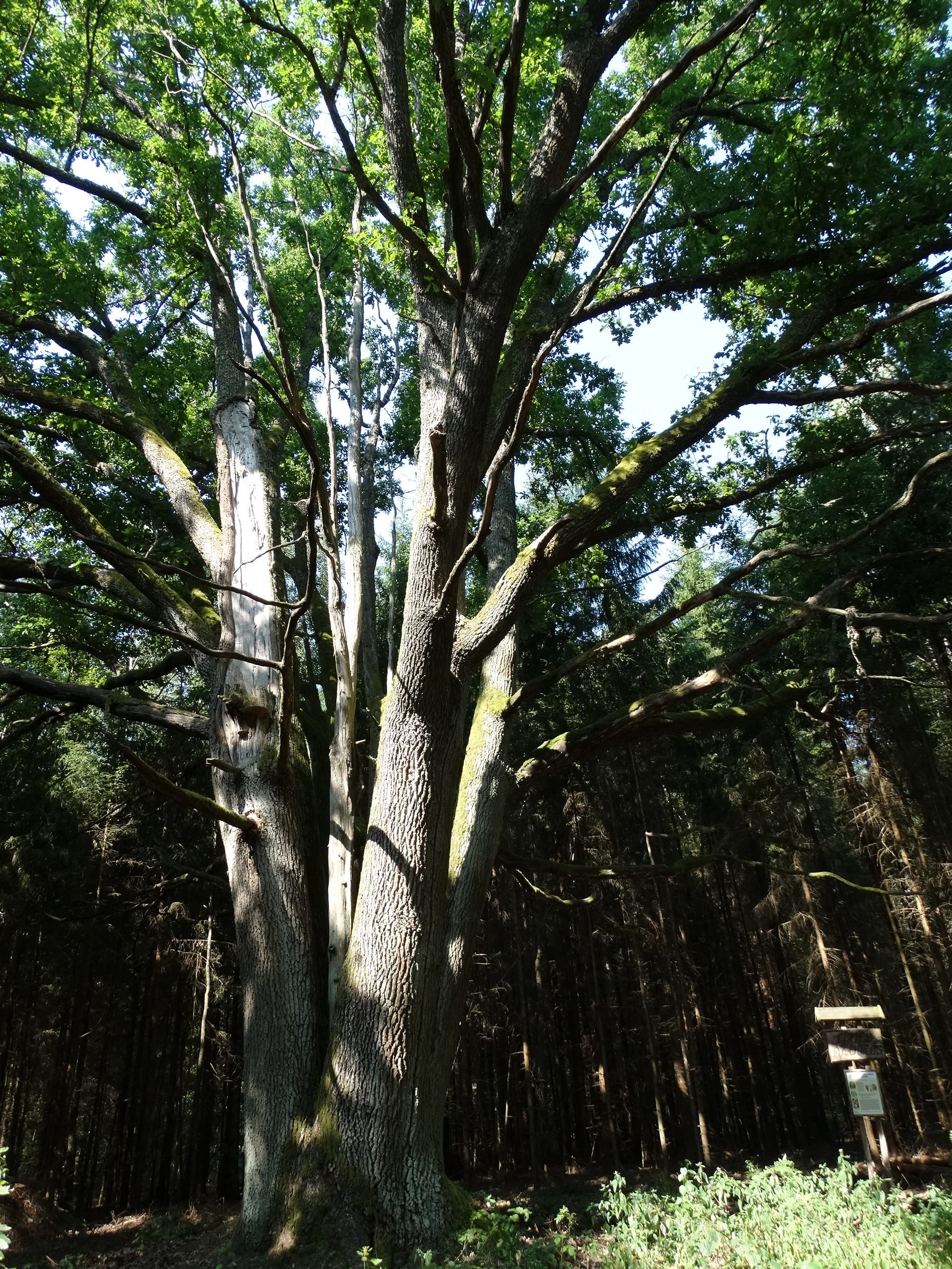 Elmė 6-trunk oak, Anykščiai District, Lithuania